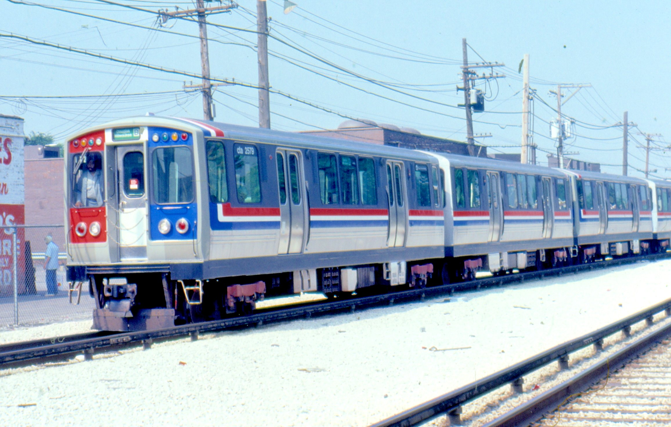 CTA Boeing-Vertol car 2579 (1976-78) leads eb Douglas-Milwaukee train @49th Av Cicero IL 7-24-81